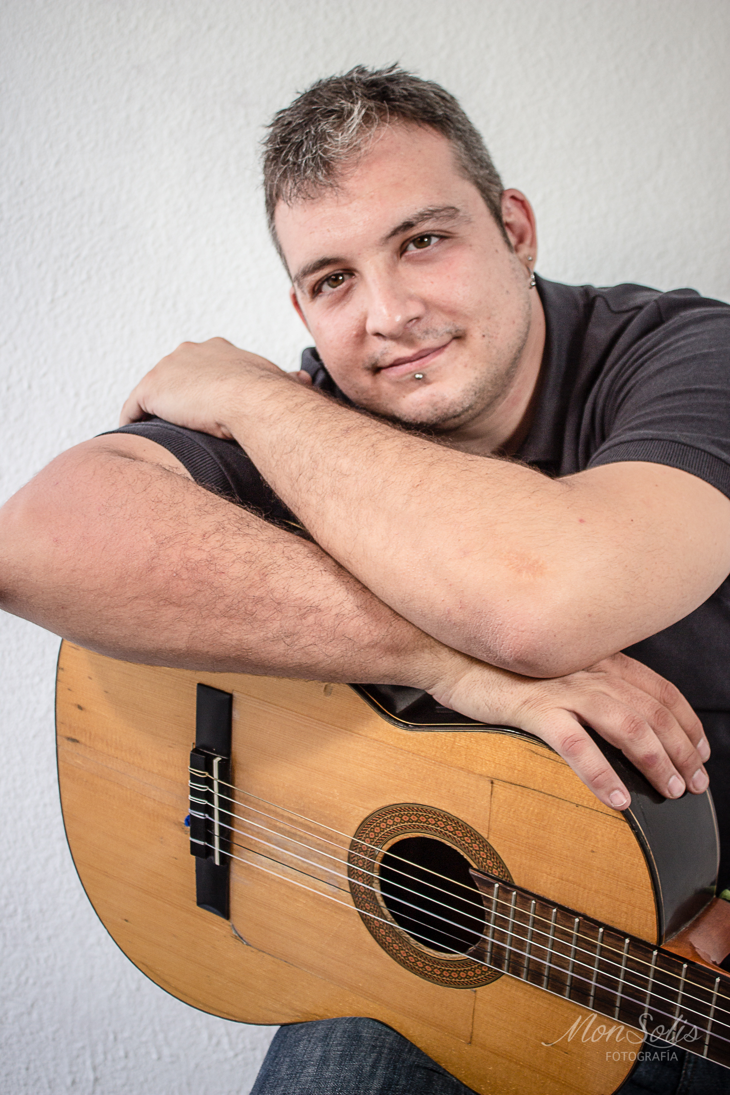 El cantautor español Miguel Cantalapiedra o Jose Riaza.